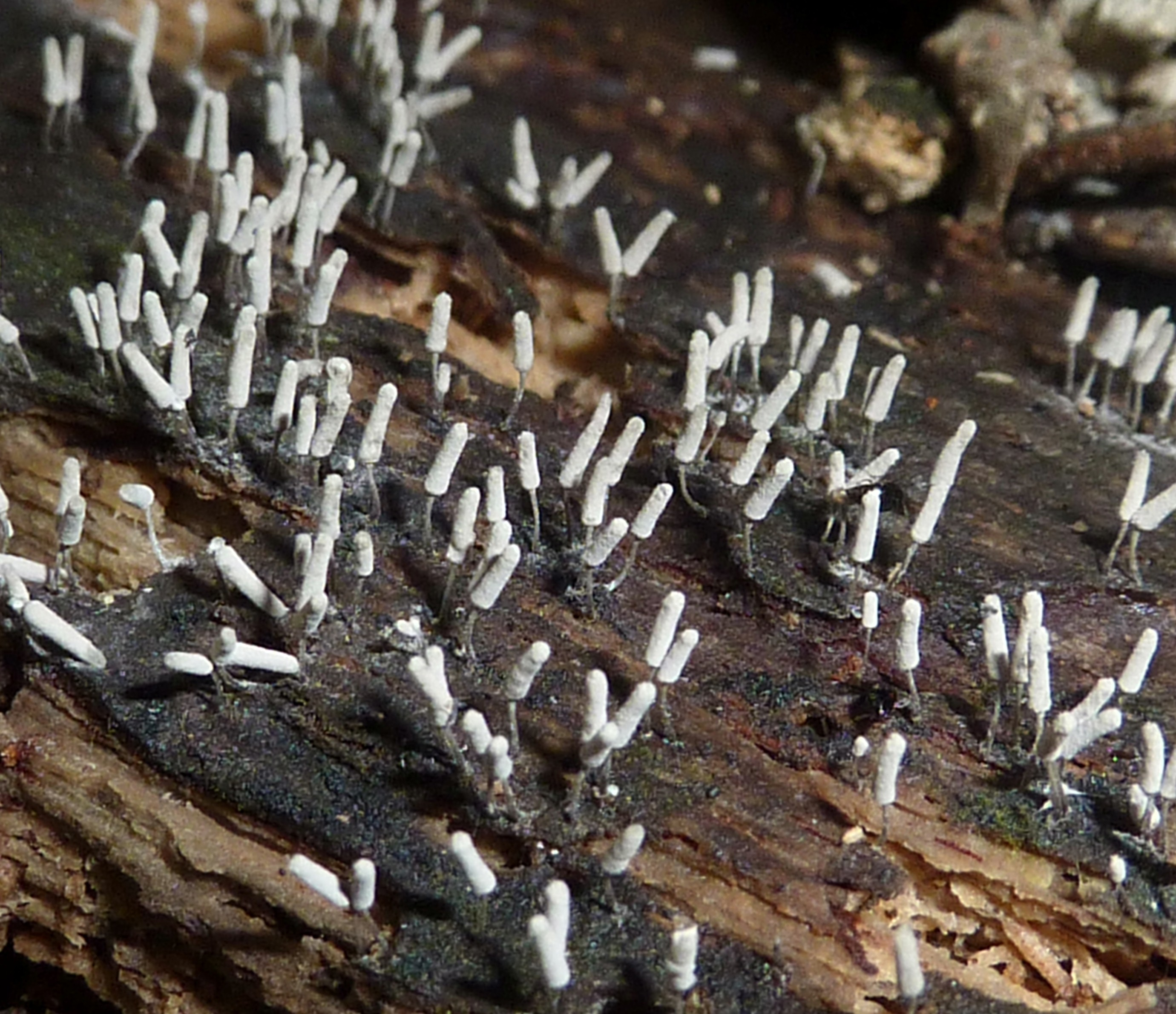 Arcyria cinerea (Bull.) Pers. Image location: Gamboa, Balboa District, Panama Province, Panama Recognized by sight For more information about this, see the observation page at Mushroom Observer.